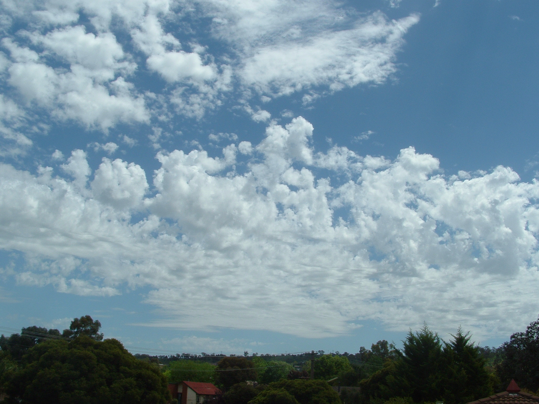 Altocumulus Castellanus Because this photograph concerns privacy since this was taken on a private property, only an approximate location is provided: Wagga Wagga, New South Wales, Australia